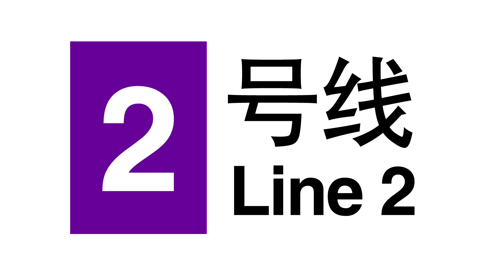 Harbin Metro Line 2 logo